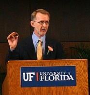 Carl Van Ness - photo cropped to have a better picture